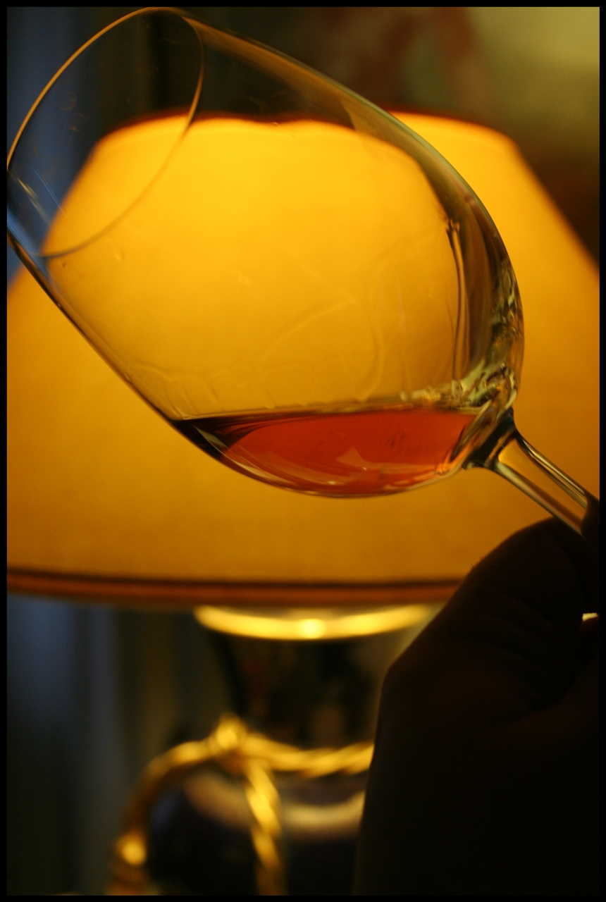 A glass of the Italian dessert wine Marsala from Sicily.